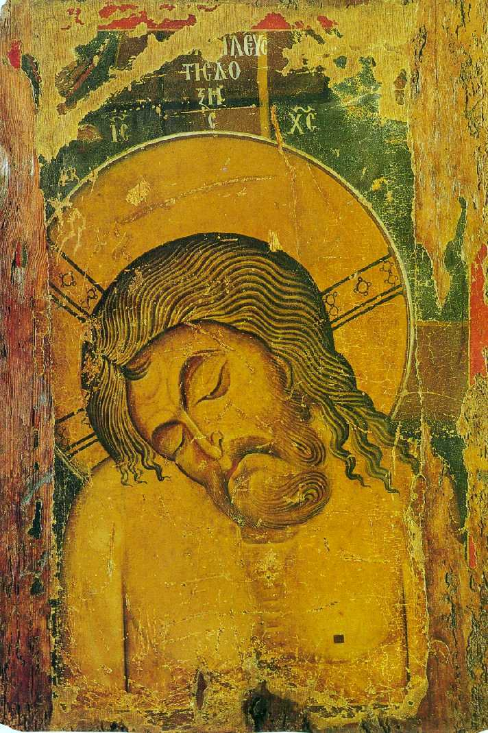 Dead Christ